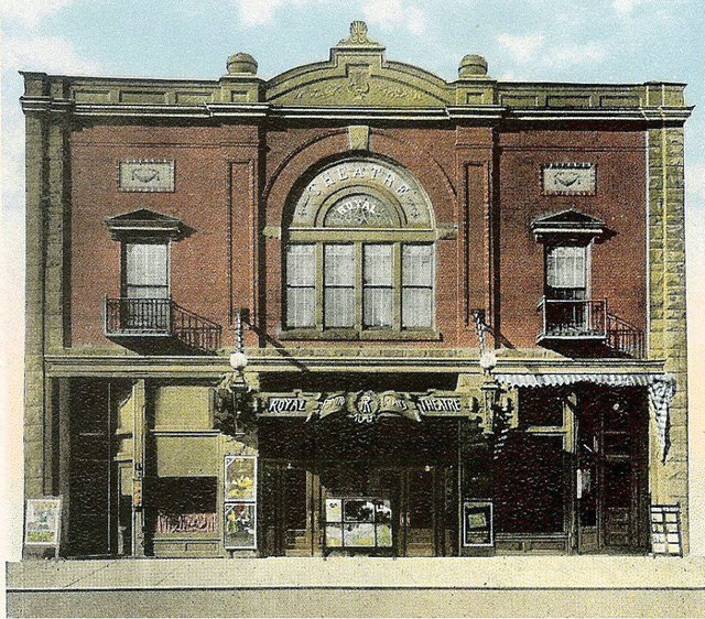 An image of the Royal Theatre in Ashland, Wisconsin.